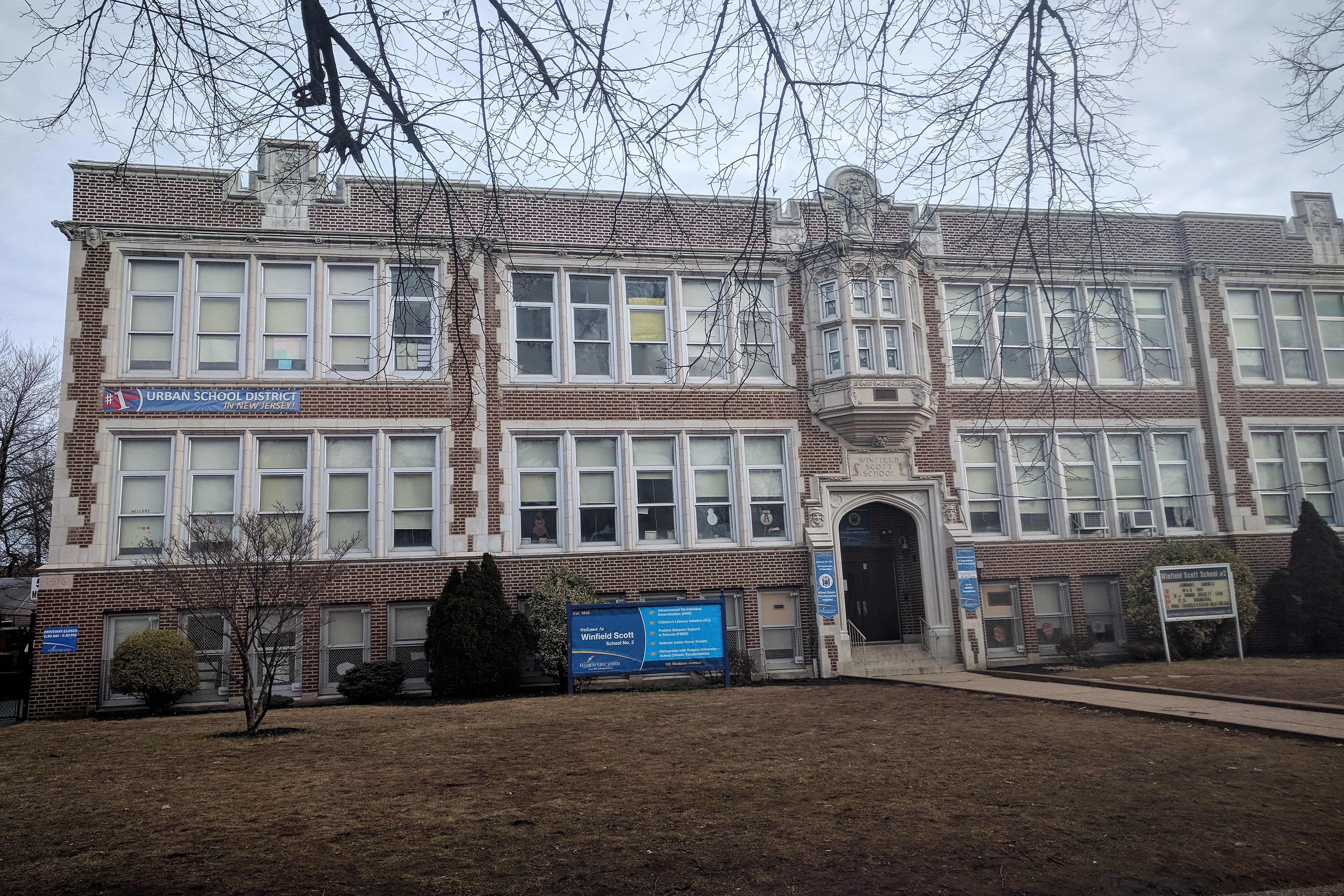 Looking east on a cloudy afternoon